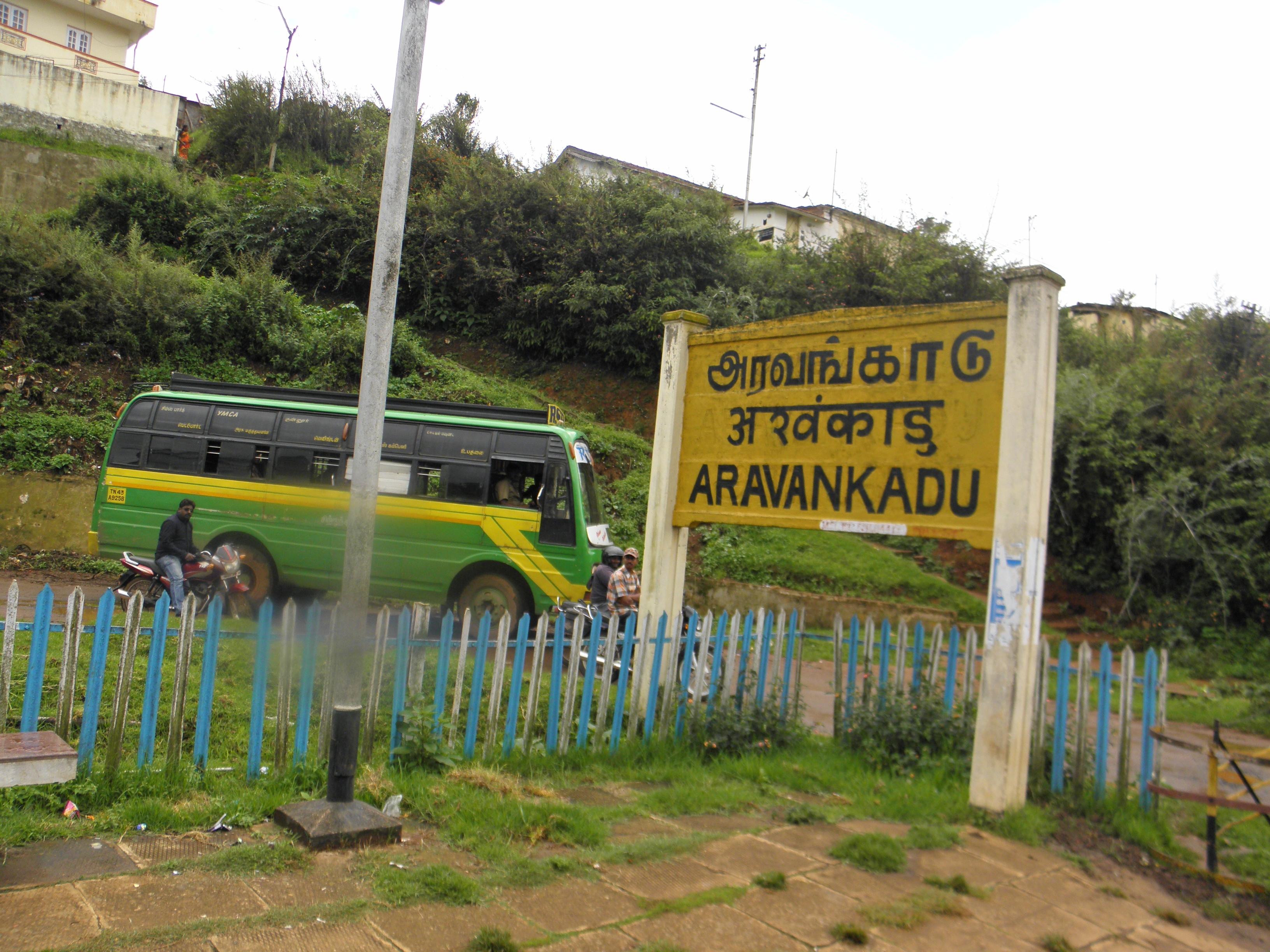 Aruvankadu railway station